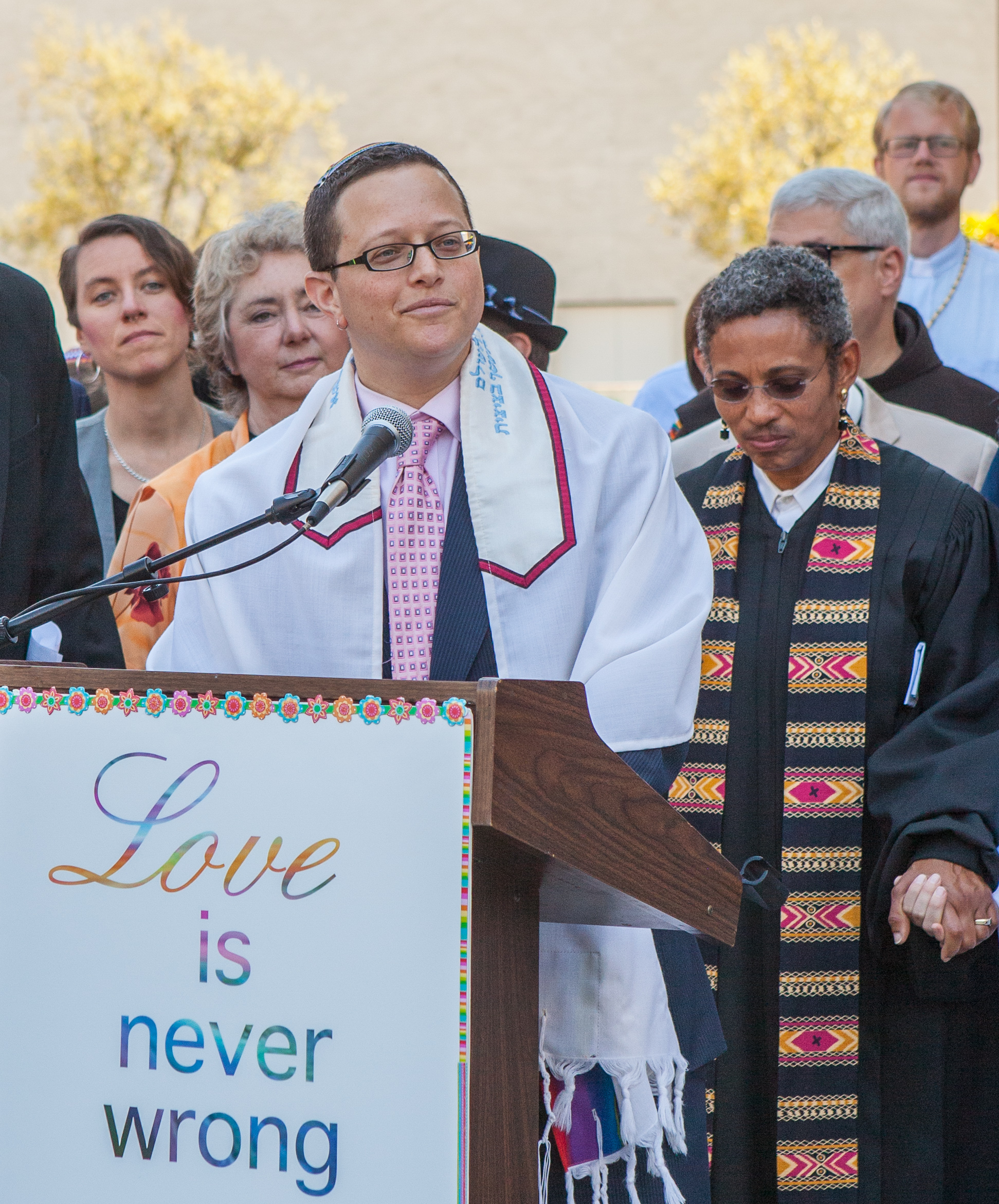 Rabbi Reuben Zellman leads a closing prayer outside Grace Cathedral in San Francisco at a press conference given by Bay Area religious leaders following the day's U.S. Supreme Court rulings on same-sex marriage.